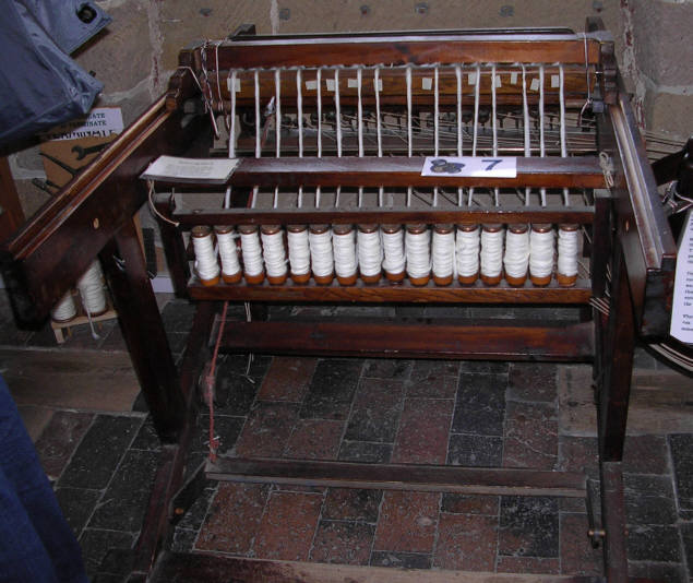 North Mill Museum - Hargreave's Spinning Jenny